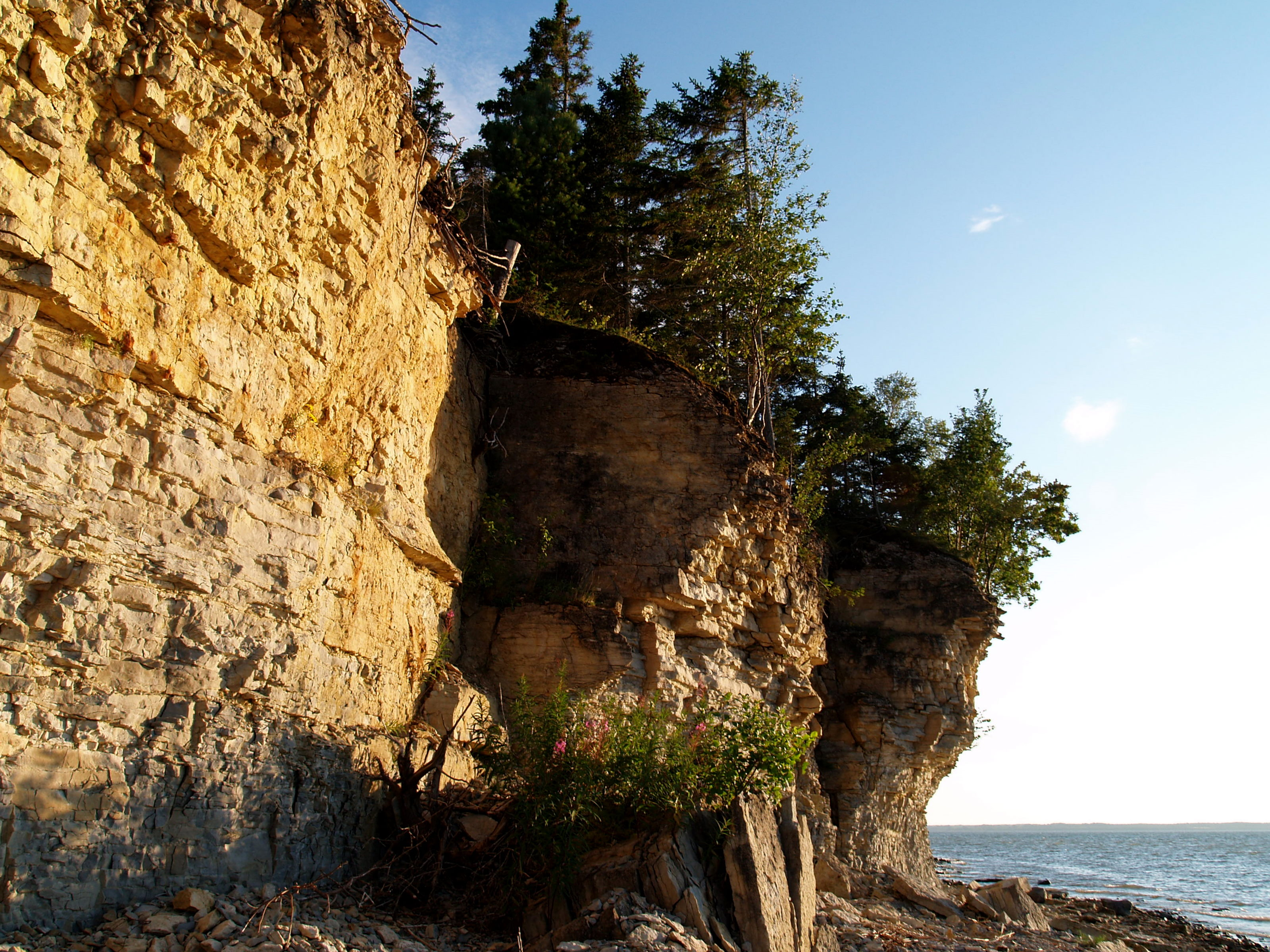 Cliff of Kesse in Kesselaid Estonia